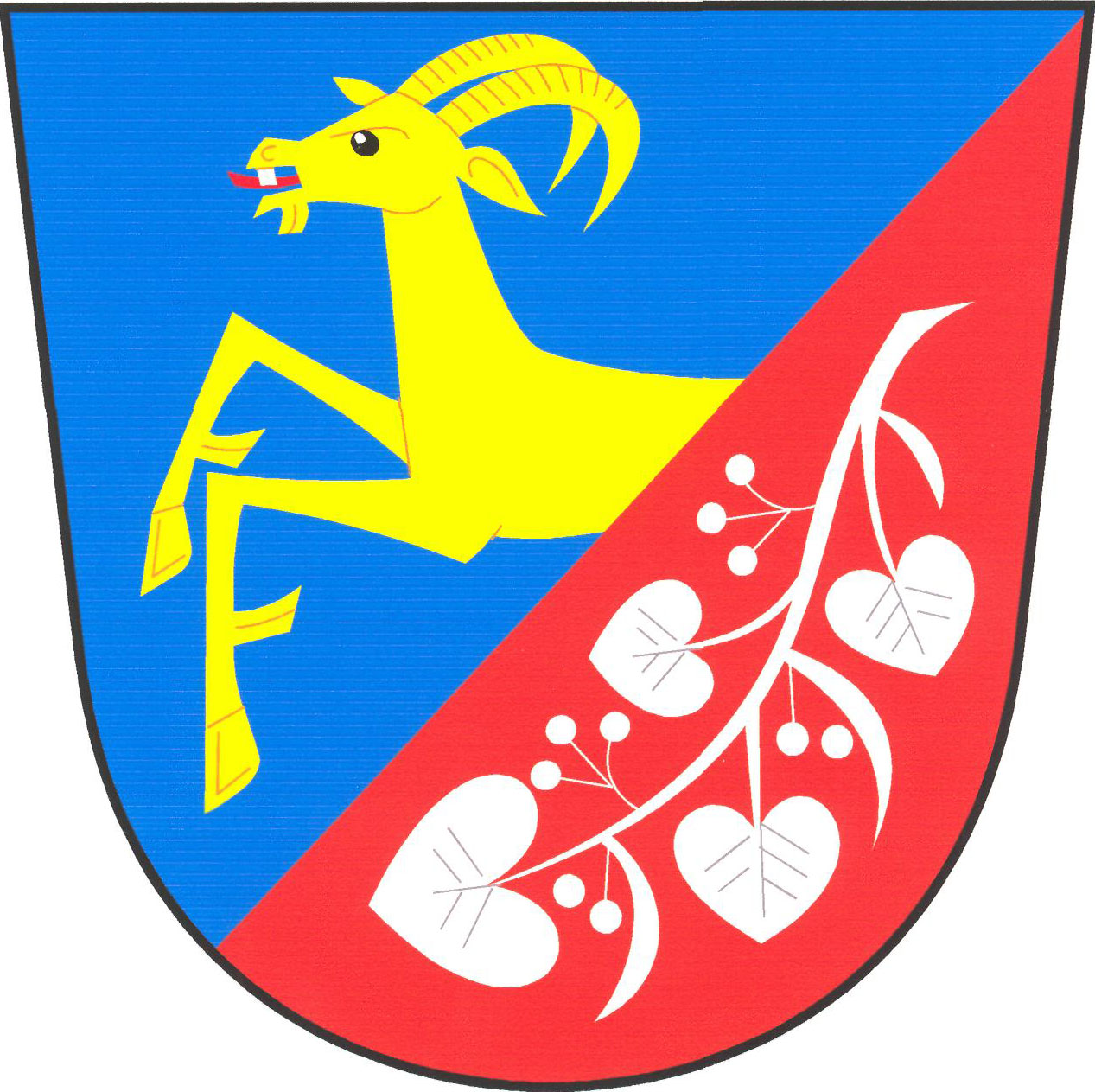 Municipal coat of arms of Lipov village, Hodonín District, Czech Republic.